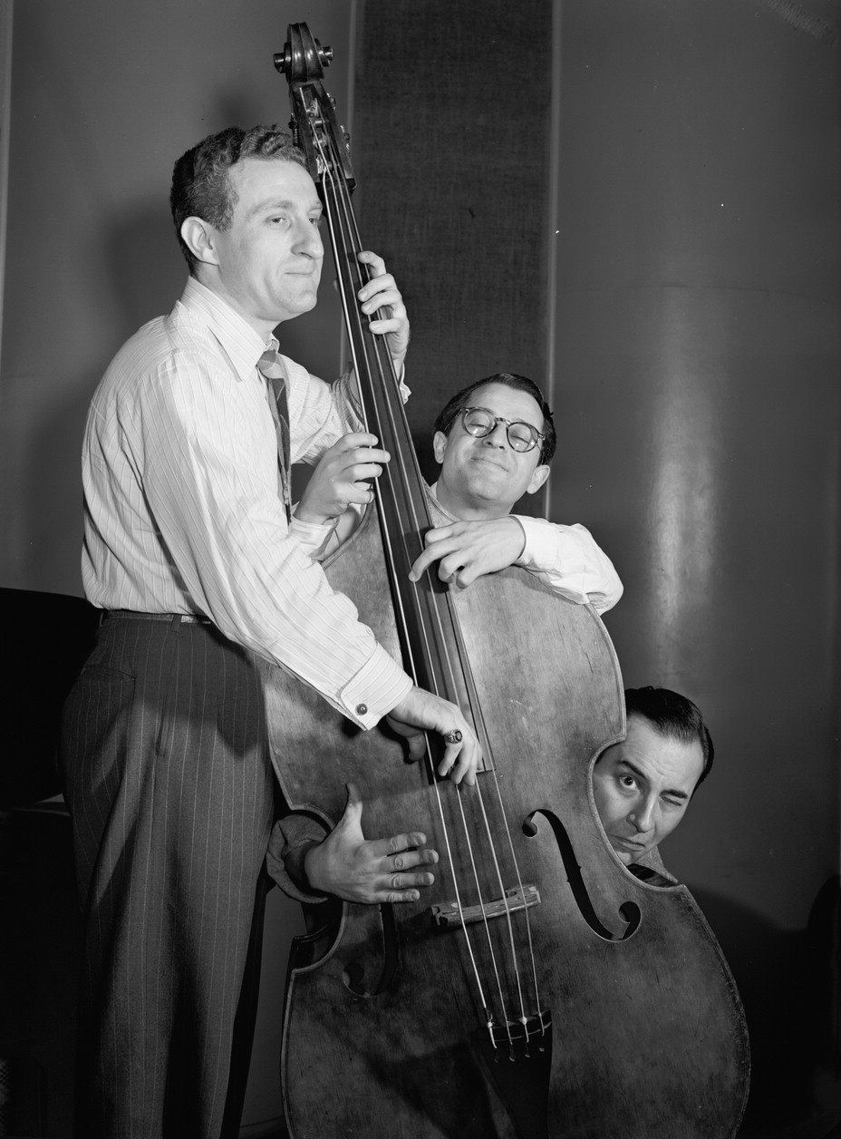 Portrait of Jack Lesberg, Max Kaminsky, and Peanuts Hucko, Eddie Condon's, New York, N.Y.